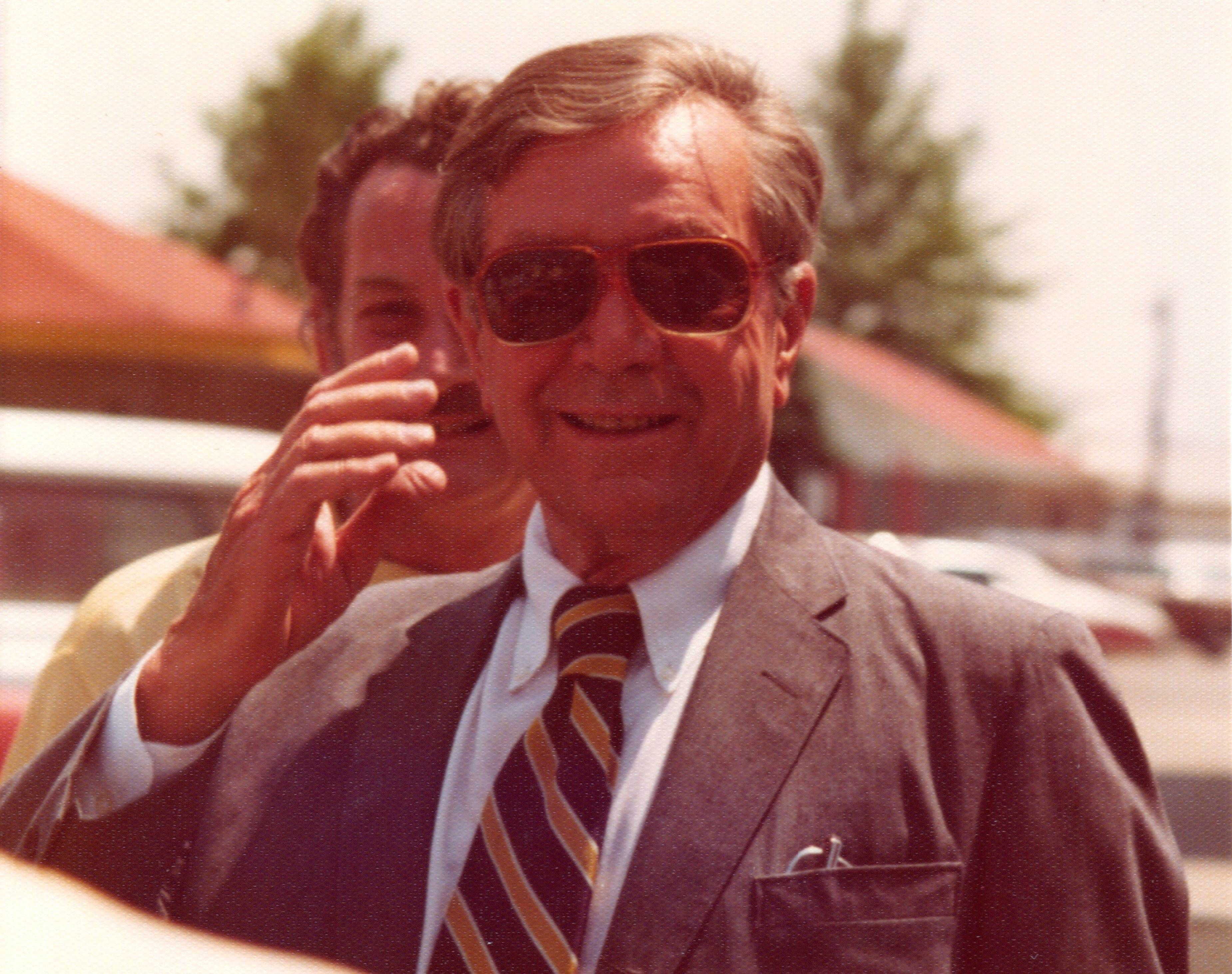 Tony Hulman at the 59th Indy 500 (1975) in Gasoline Alley